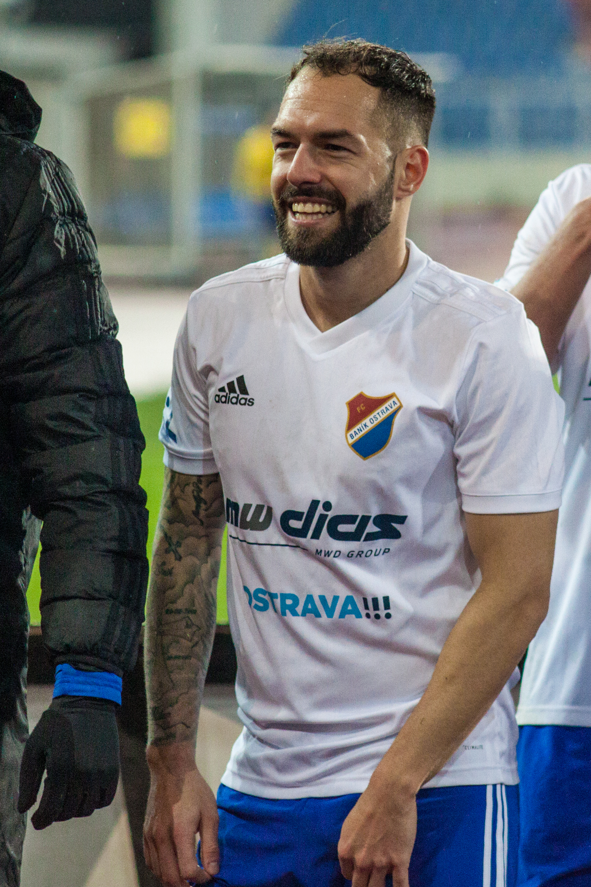 Milan Lalkovič in a Czech First League (Fortuna:Liga) match between FC Baník Ostrava and FC Fastav Zlín (4:0), 5 October 2019, Městský stadion Ostrava, Ostrava-Vítkovice, Ostrava-City District, Moravian-Silesian Region, Czechia Personality rights warningAlthough this work is freely licensed or in the public domain, the person(s) shown may have rights that legally restrict certain re-uses unless those depicted consent to such uses. In these cases, a model release or other evidence of consent could protect you from infringement claims.